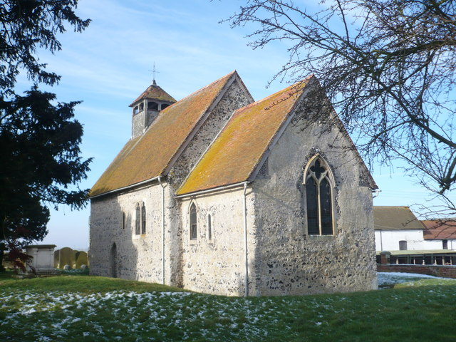 The Norman church of St. Bartholomew, Goodnestone Viewed from the chancel or eastern end. This church ceased to be used for regular worship in 1982 and since 1996 it has been cared for by The Churches Conservation Trust.